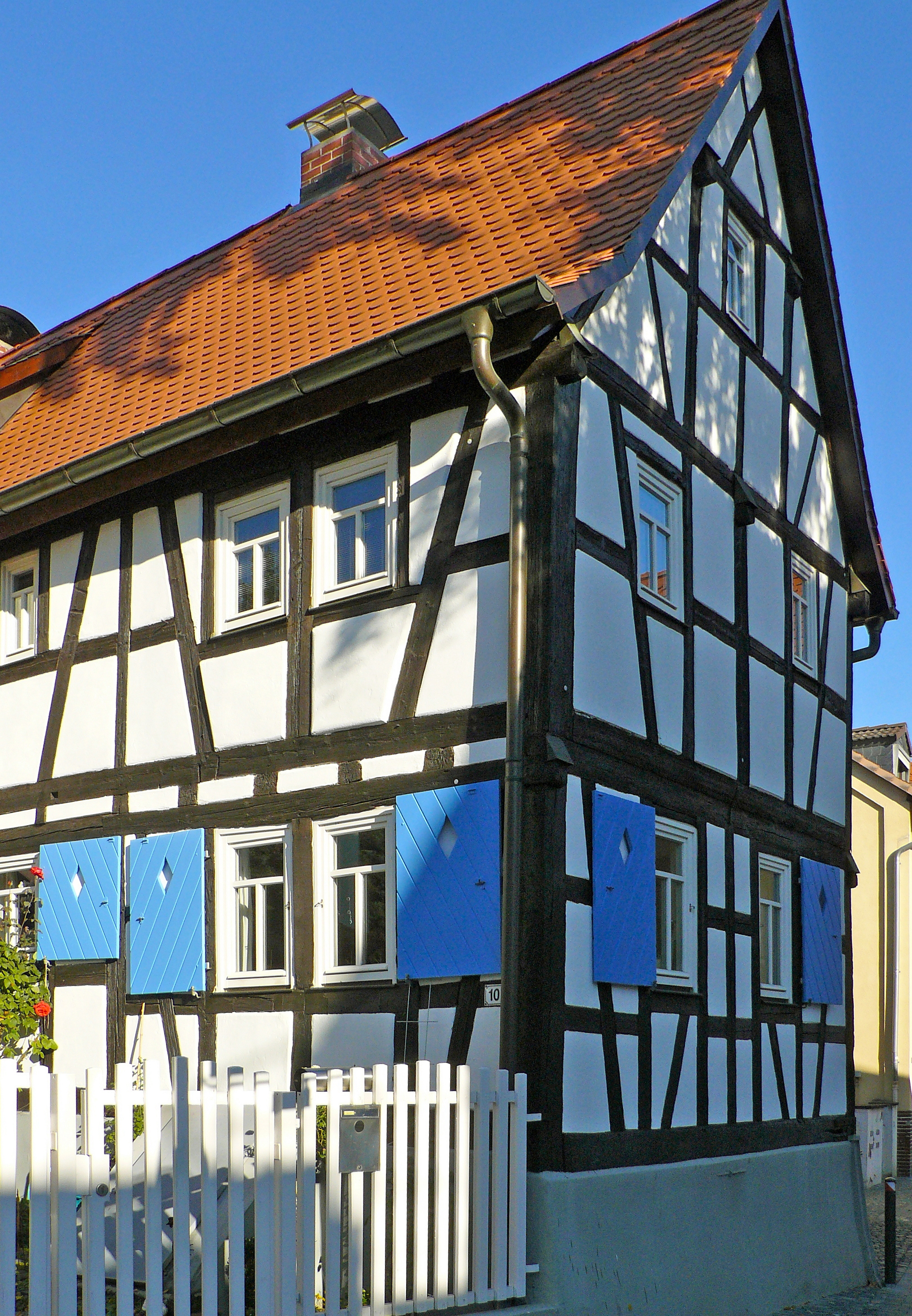 Half-timbered home at Zentgrafenstrasse 10, Seckbach, Frankfurt, Hesse, Germany